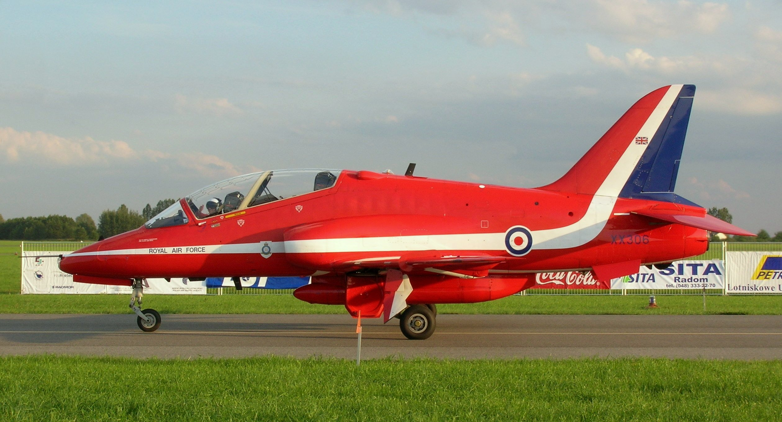 Red Arrows BAe Hawk taxiing, Radom Airshow 2005.